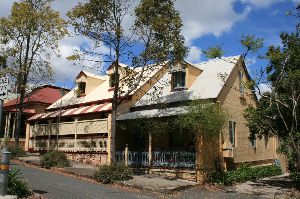 Moody's Cottages (2008) - pair of semi-detached houses (Cooee and unnamed neighbour)